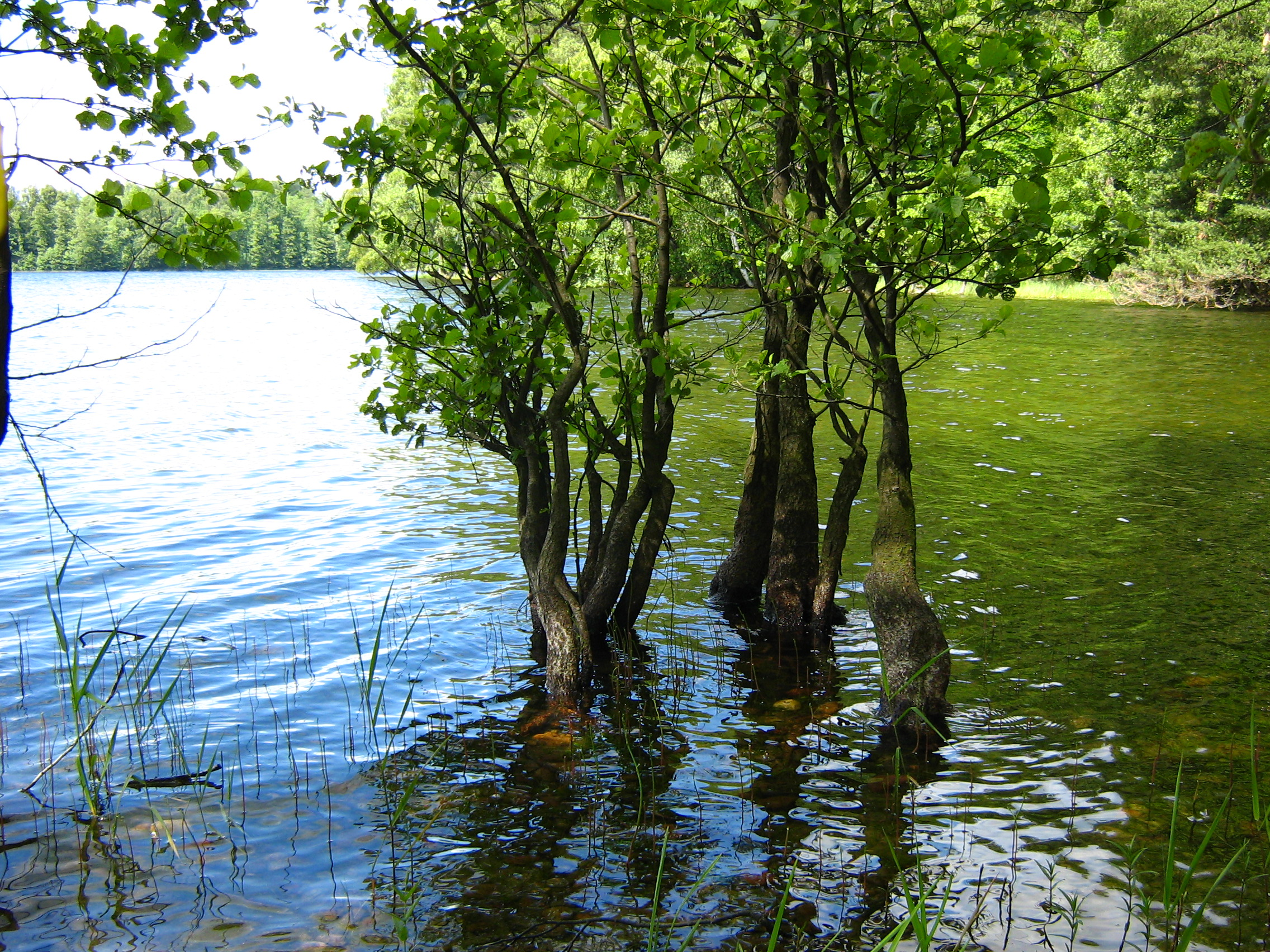 Black alder in Bobięcińskie Wielkie Lake, Poland